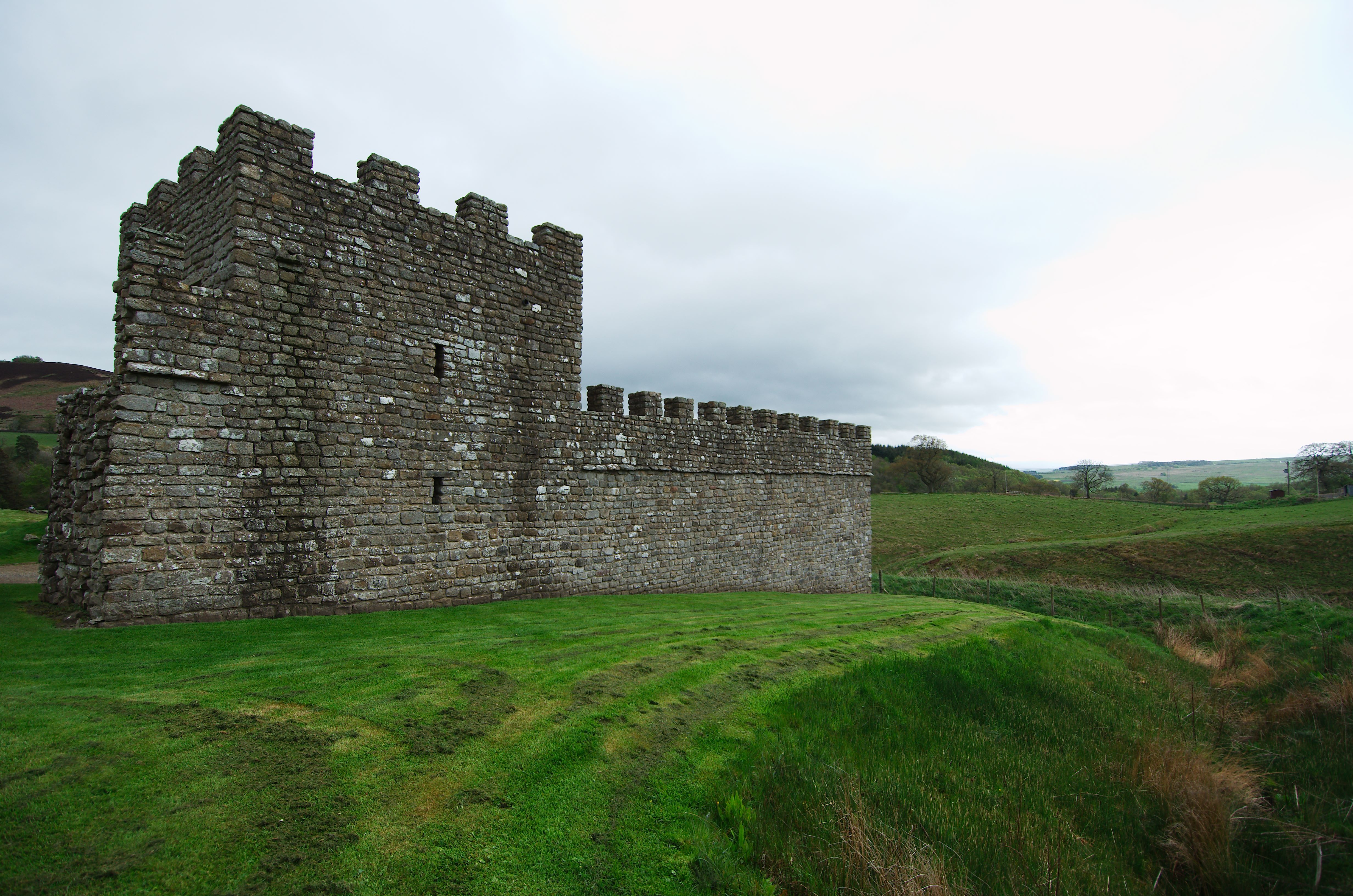 2015 - Hadrian's Wall Trip